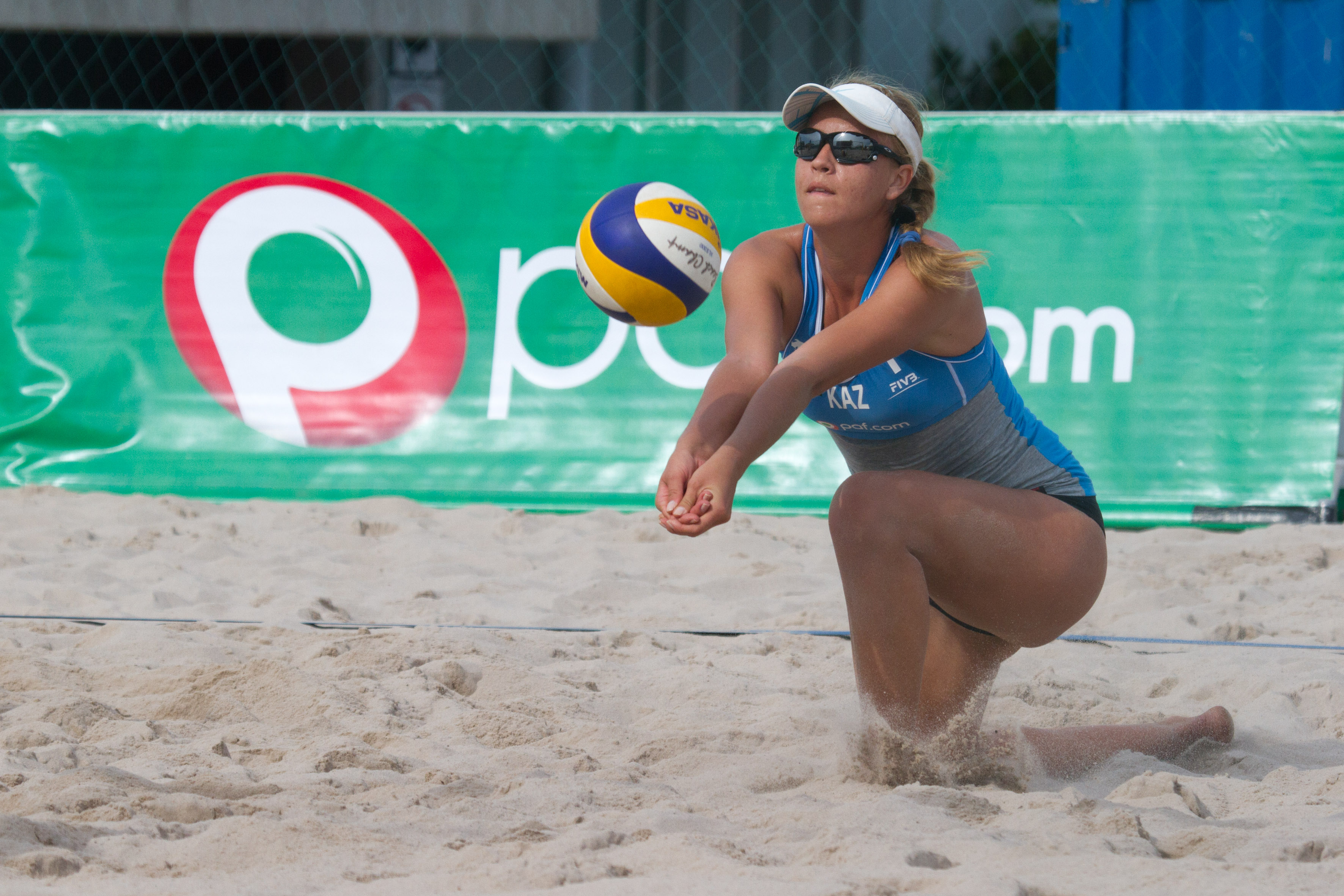 Tsimbalova and Mashkova of Kazakhstan play Maria Clara and Lili of Brazil on August 30 2012 at the Paf Open in Mariehamn, Åland, Finland. Photograph: Rob Watkins/ This picture is free to use as long as it it credited: Rob Watkins/